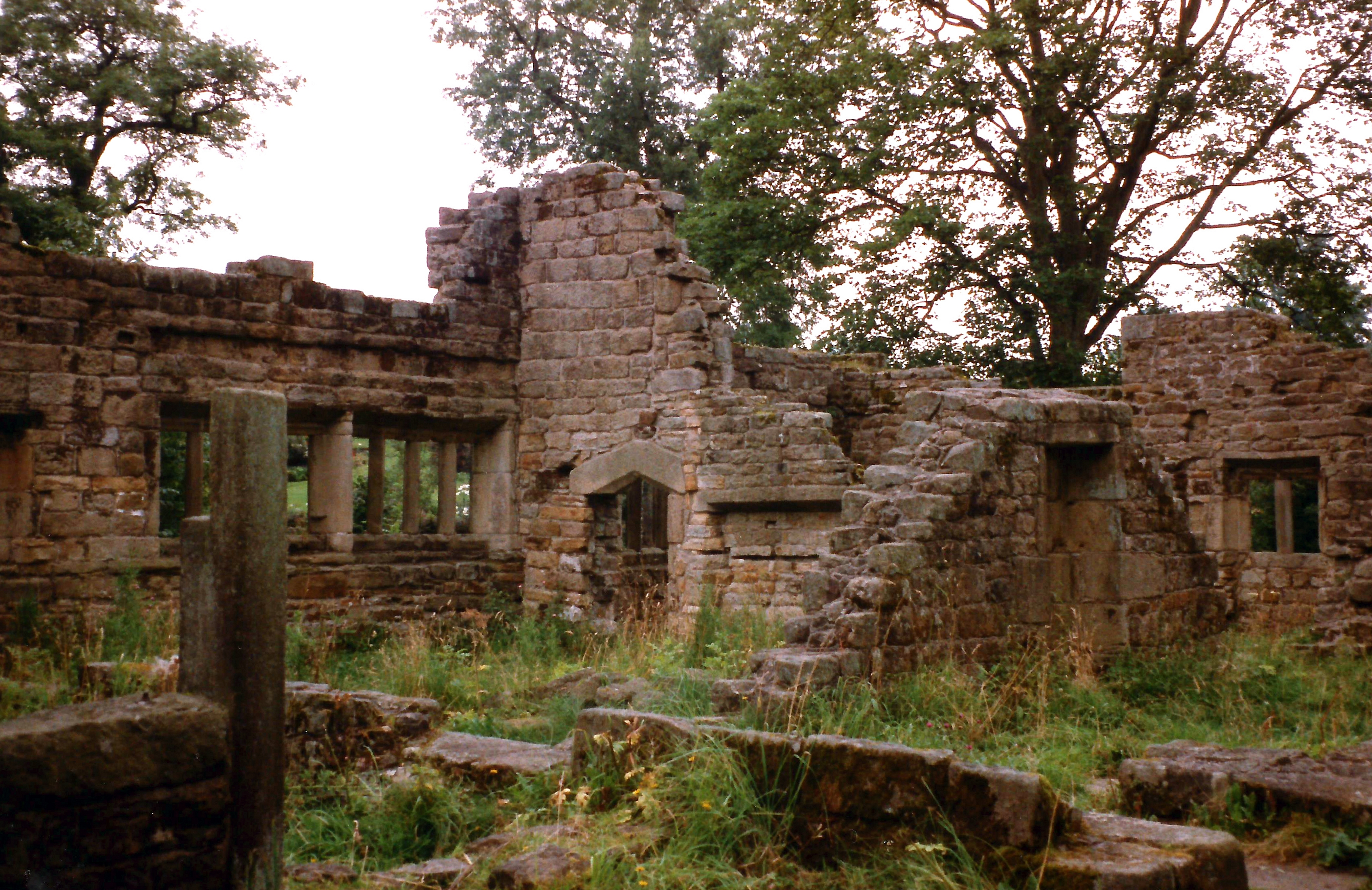 ruins of Wycoller Hall, Pendle, Lancashire, England